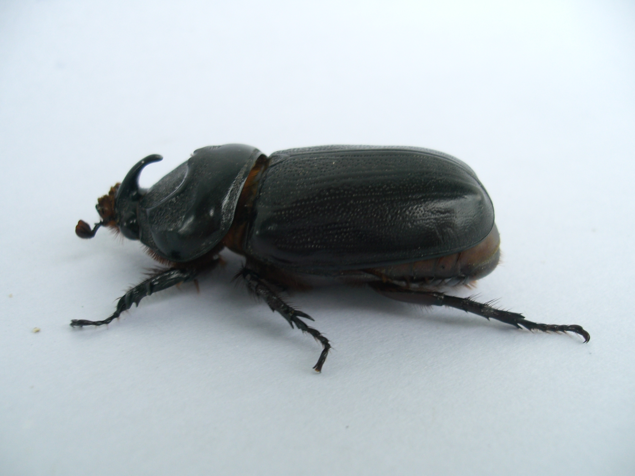 Ein Käfer in Thailand Oryctes rhinoceros --Vitalfranz 10:17, 20 October 2007 (UTC)